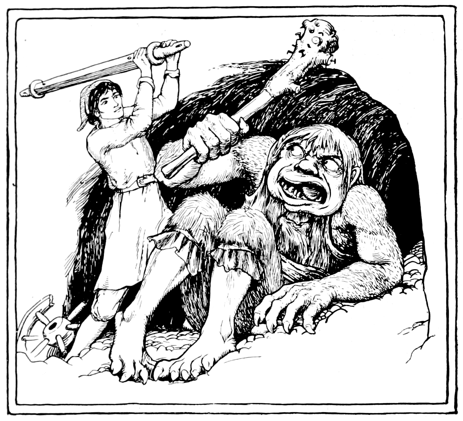 Scan illuatration on page of book in a series of fairy tales. A warning to children.